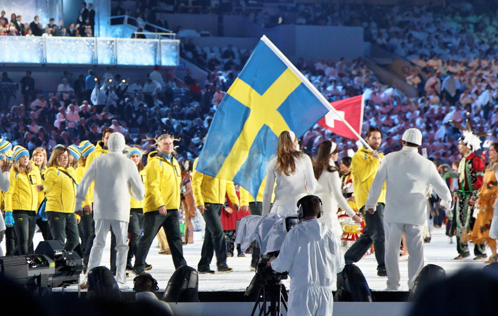 Ice hockey superstar Peter Forsberg leads Sweden in the Parade of Nations.